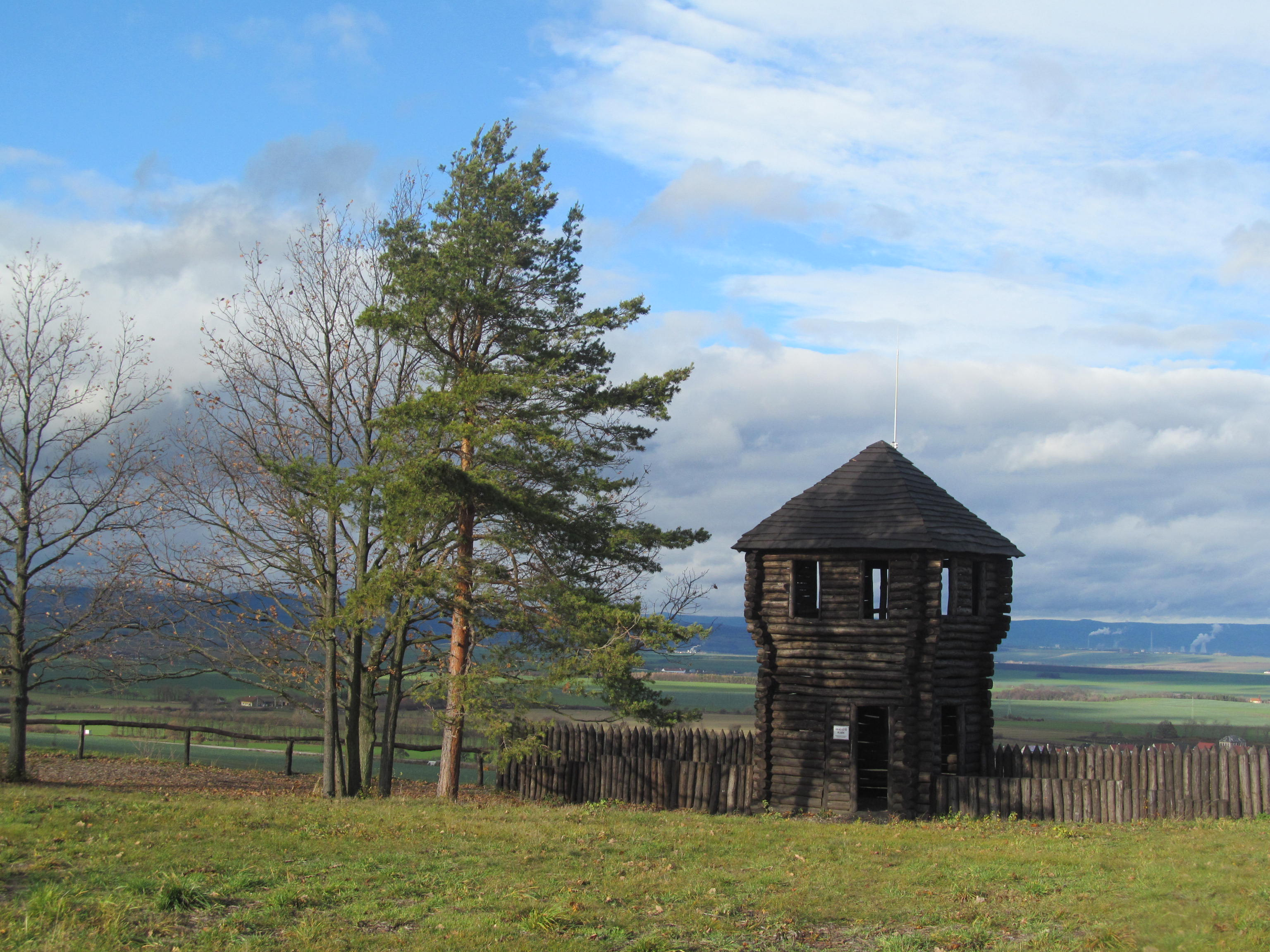 Observation tower on the hill fort Rubín